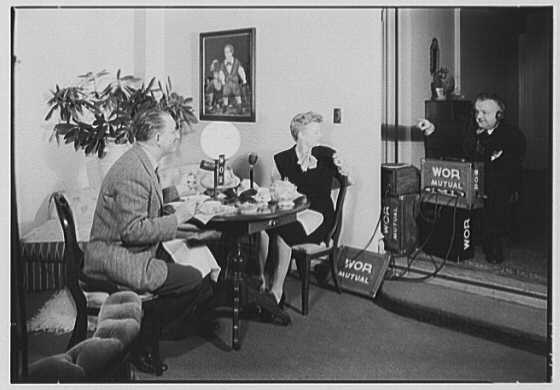 Ed and Pegeen Fitzgerald, residence at 15 E. 36th St., New York City. Ed, Pegeen and engineer broadcasting at breakfast